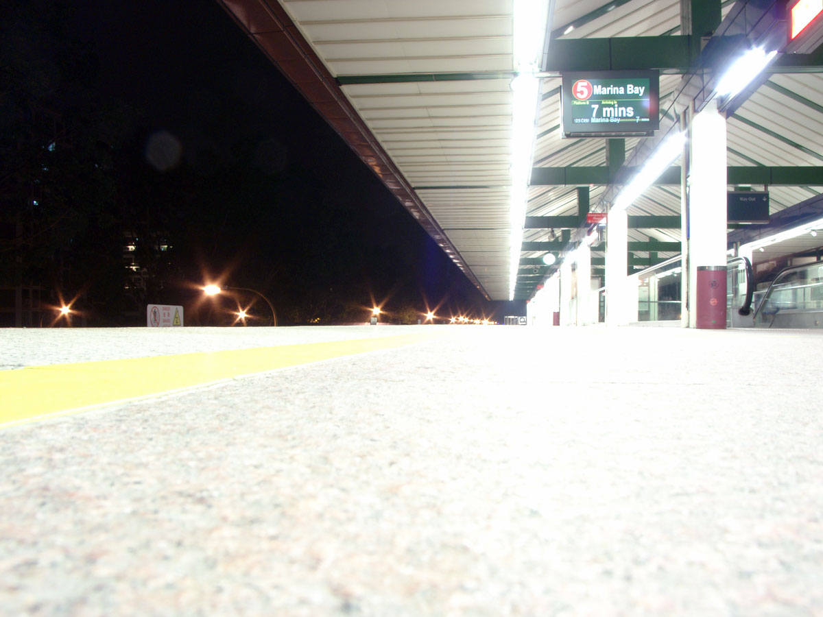 The southbound platform of Yishun MRT Station on the North South Mass Rapid Transit Line in Singapore.